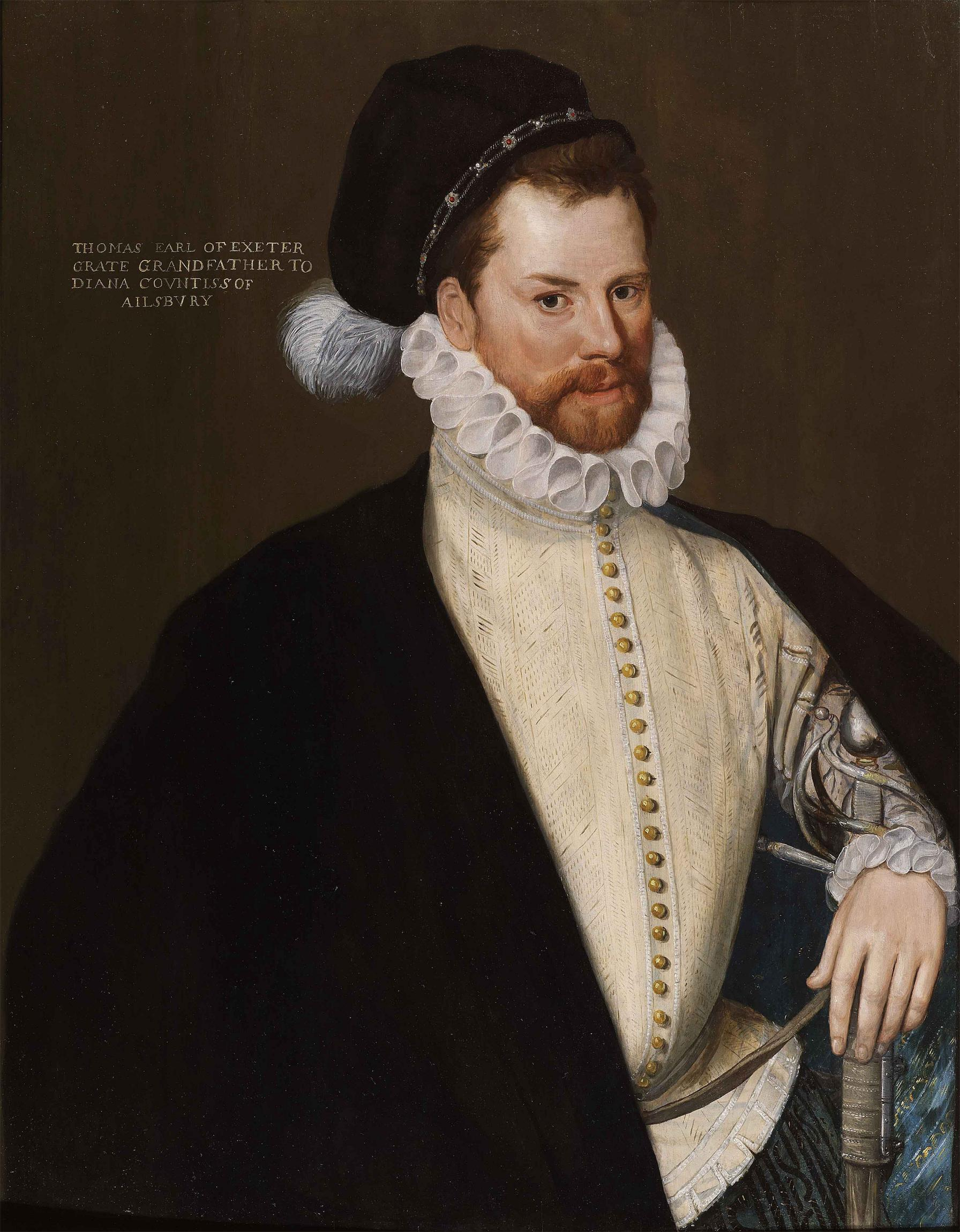 Portrait of Thomas Cecil,1st Earl of Exeter (1542-1622/23)